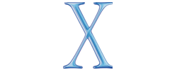 Logo of Mac OS X, Specifically v.10.0 and v.10.1